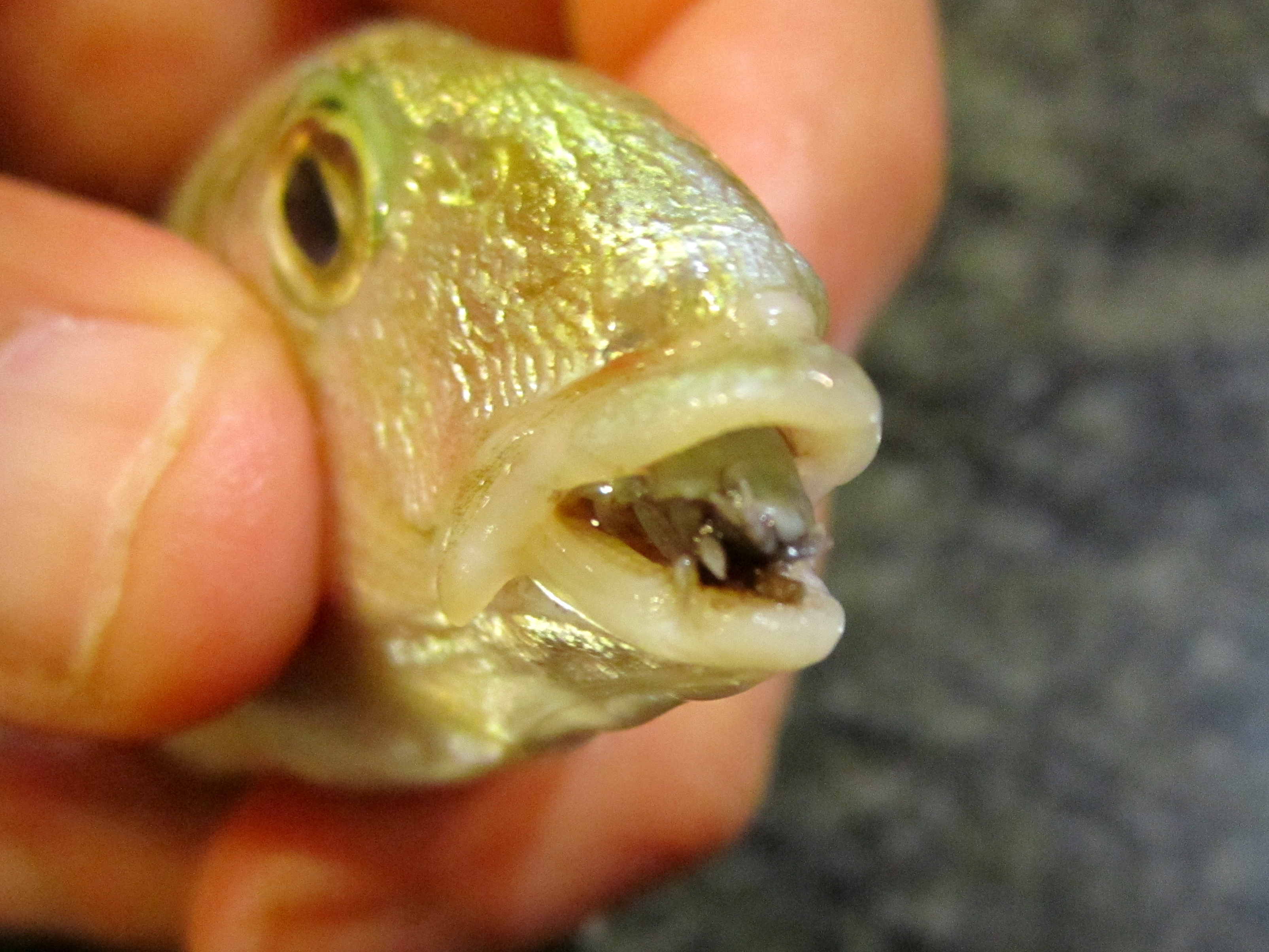 Cymothoa exigua, or the tongue-eating louse, is a parasitic crustacean of the family Cymothoidae. The parasite enters fish (here a Sand steenbras, Lithognathus mormyrus) through the gills and then attaches itself to the fish's tongue.